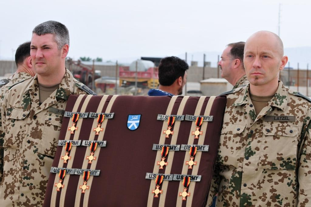 14 U.S. MEDEVAC crewmen are awarded the German Gold Cross for risking their lives to come to the rescue of German soldiers during a firefight in Kunduz, Afghanistan. Germany’s Gold Cross medal is one of the nation’s highest awards for valor and this is the first time in history foreigners have ever received the award